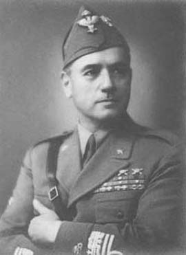 Italian Field Marshal Giovanni Messe (here as General around 1936)